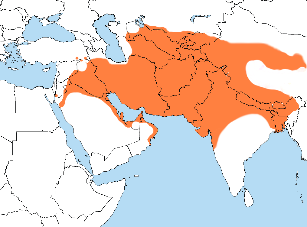 reeding distribution of Otus brucei